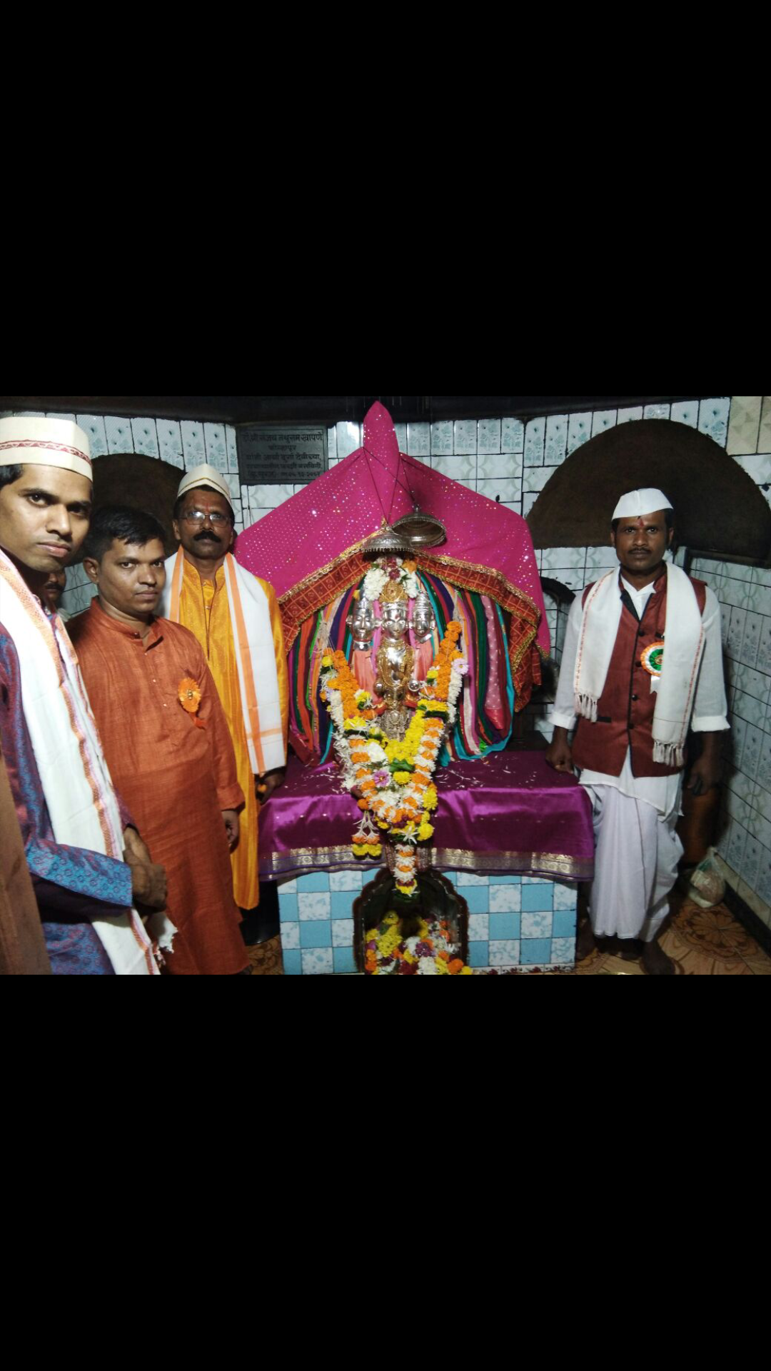 Aryadurga devi, devihasol, rajapur